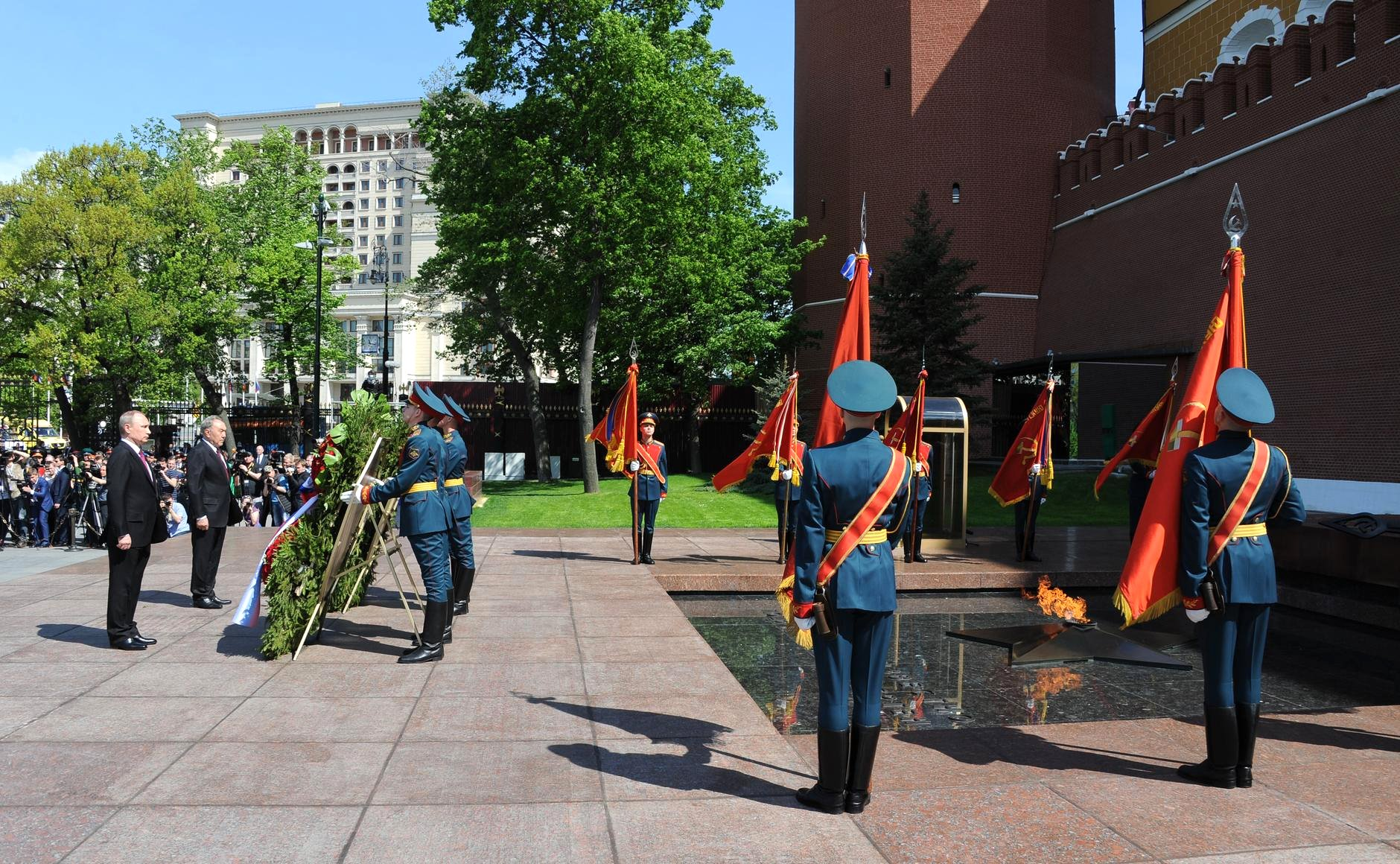 Wreath-laying ceremony at the Tomb of the Unknown Soldier 2016-05-09